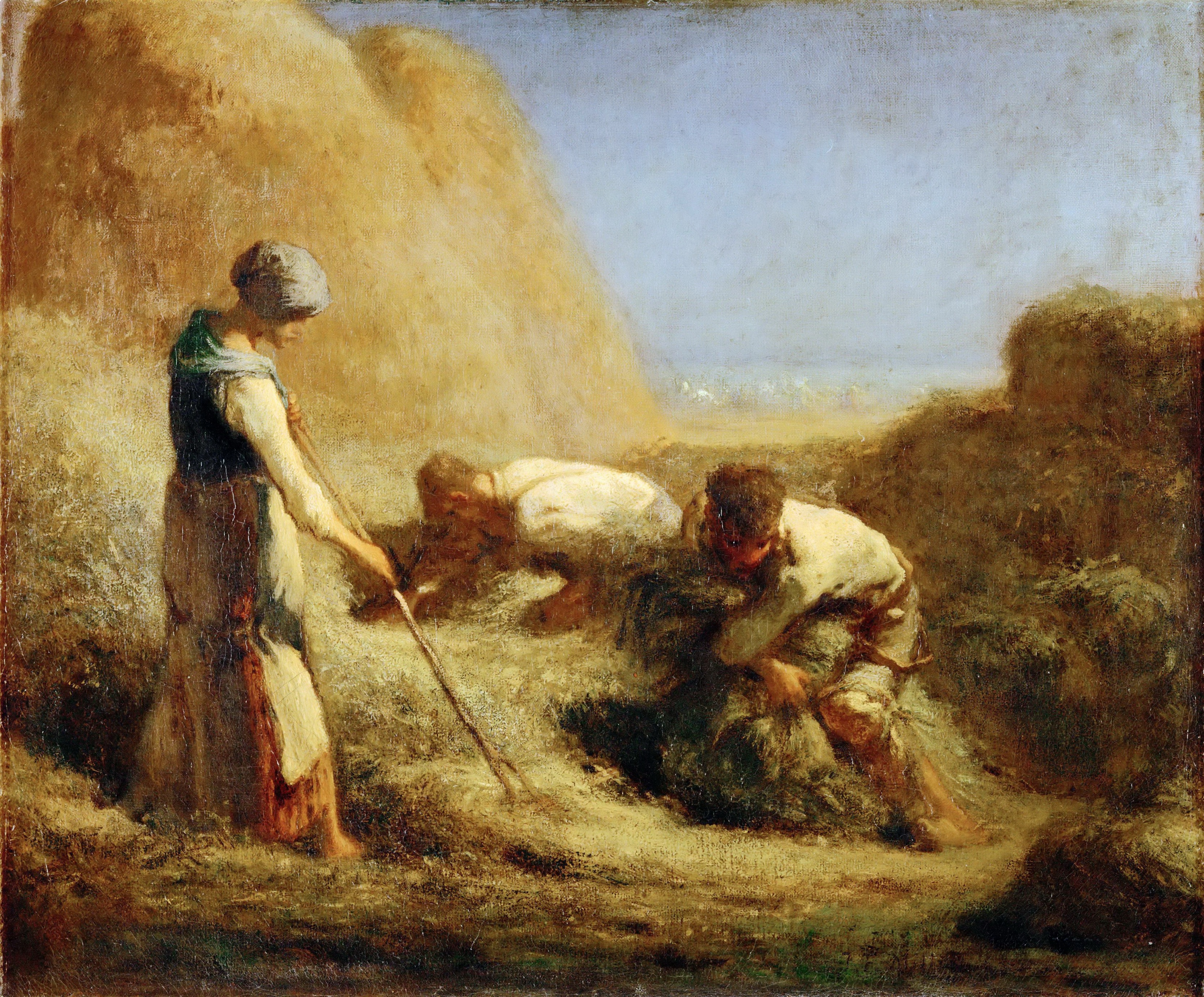 The Haymakers